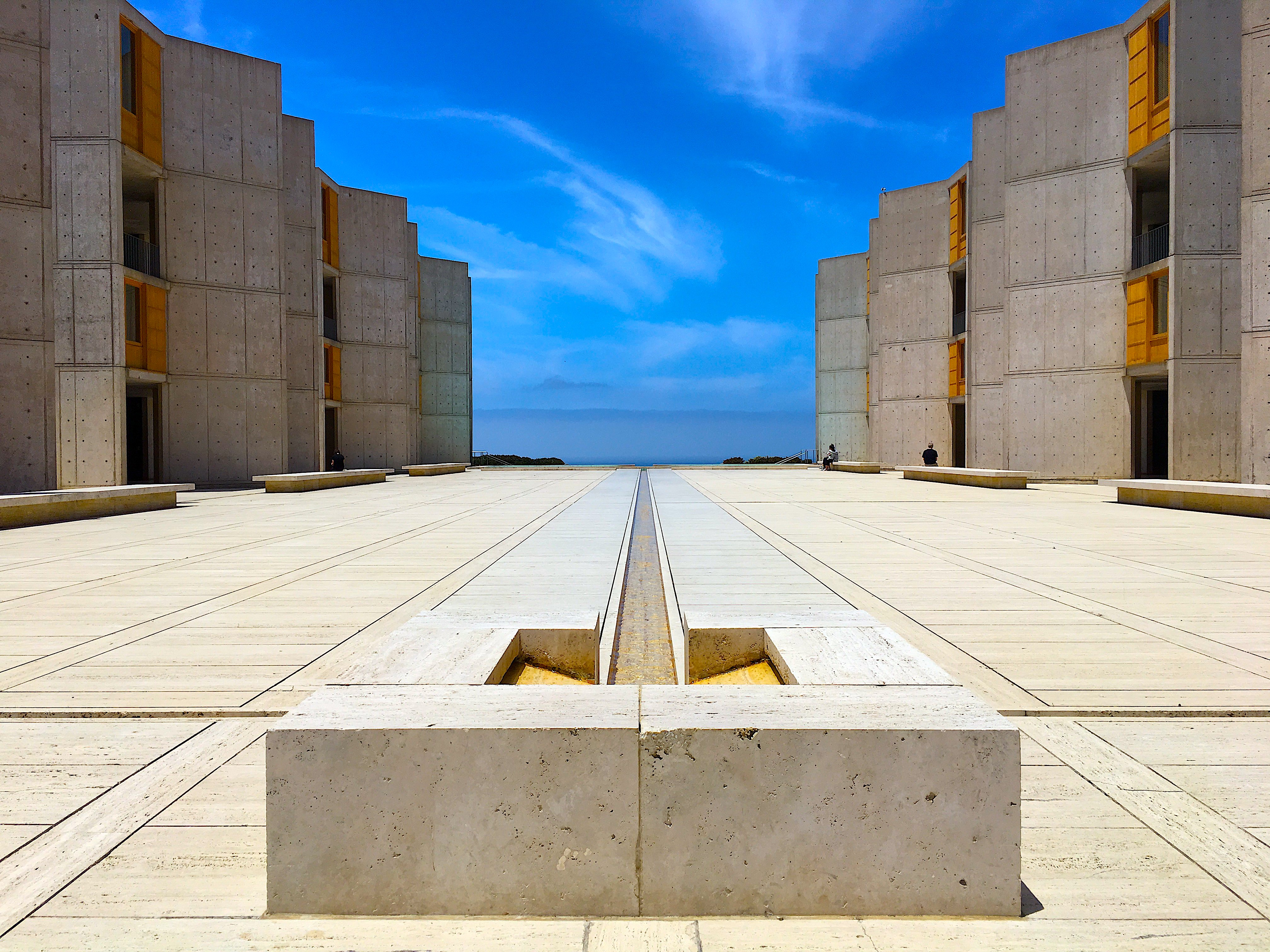 The Salk Institute for Biological Studies completed in 1965. San Diego Register #304